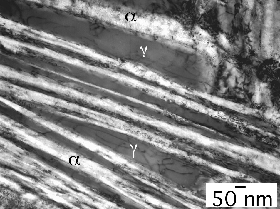 Fe–0.98C–1.46Si–1.89Mn–0.26Mo–1.26Cr–0.09V wt%, transformed at 200 °C for 15 days. Bright field transmission electron micrograph